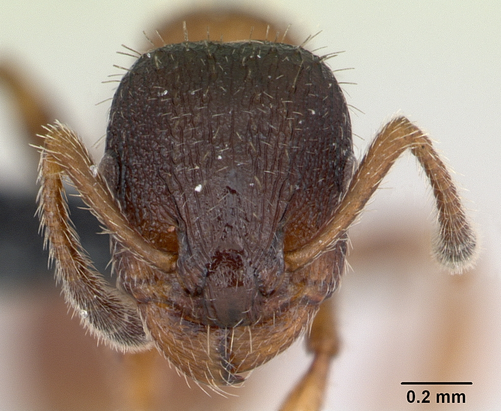 Head view of ant Leptothorax acervorum specimen casent0173138.